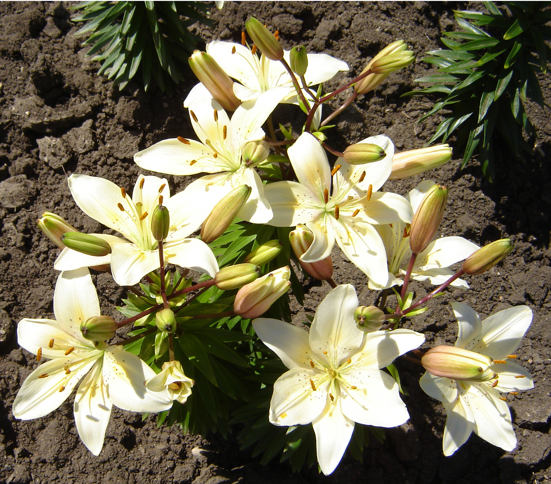 Lilium 'University of Saskatchewan' University of Saskatchewan Centennial Lily by plant breeder Donna Hay. University of Saskatchewan Centennial Lily